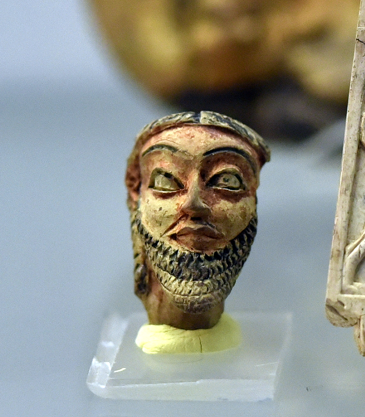 Terracotta head, painted red and black, H 4.3 cm, W 2.6 cm. From Room 71 of the Royal Palace at Dur-Kurigalzu (Aqar Quf), Iraq. Probably representing a court dignitary. The overall depiction dates this head to the reign of Marduk-apla-iddina I, 1171-1159 BCE. On display at the Iraq Museum in Baghdad.